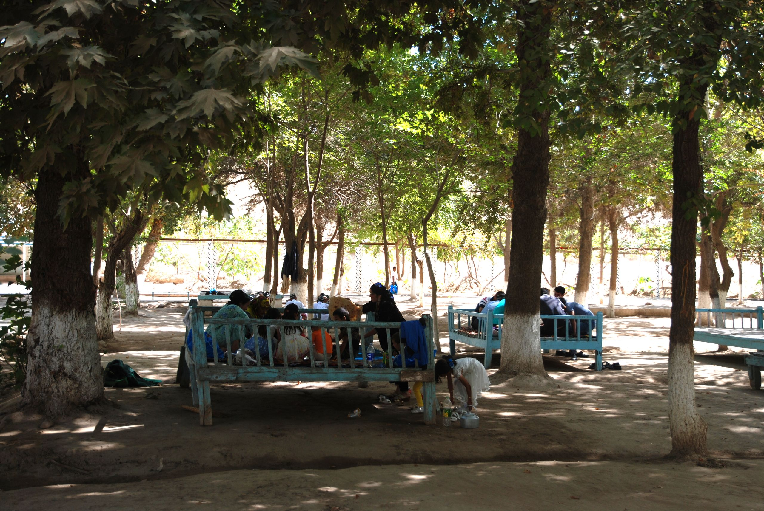 Tapchan, in Chiluchor chasma (44 springs), Tajikistan